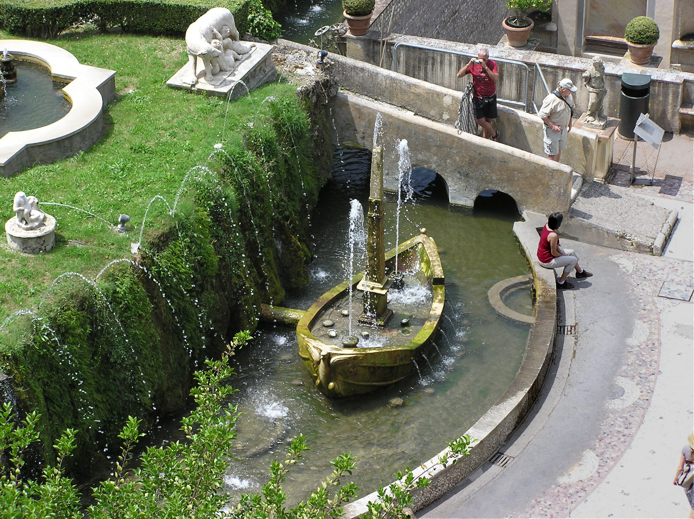 The Fountain of Rometta (Fontana della Rometta) at the Villa d'Este, Tivoli, Italy (near Rome)).